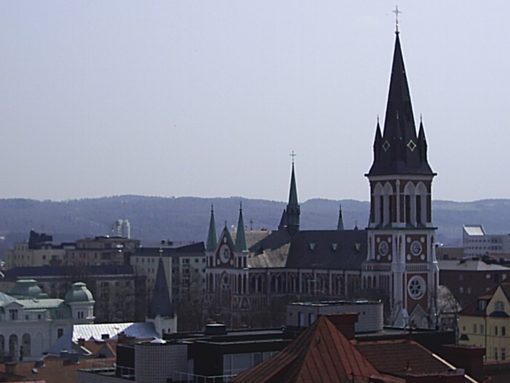 The Sofia Church in Jönköping, Sweden. Photo may 2006 Tubaist